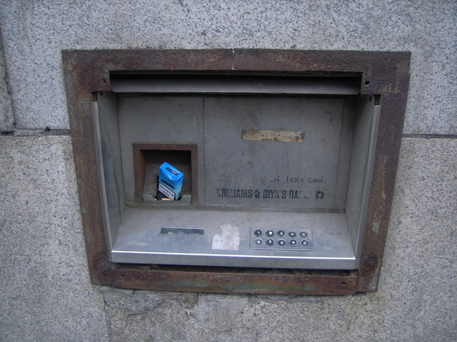 ATM (Cash machine) at the former National Bank (built c.1920) at the corner of James Street and Fenwick Street.